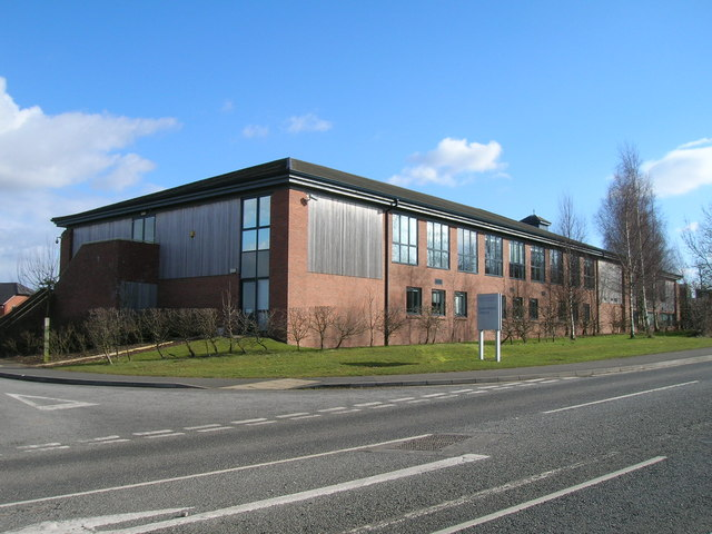 Brackenhurst Campus, Nottingham Trent University